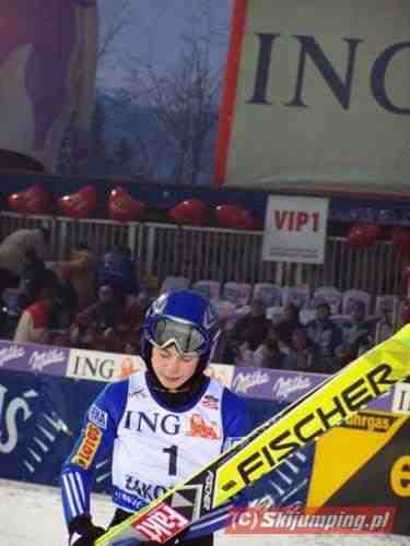 Kamil Stoch during his first performance in FIS Ski Jumping World Cup: Zakopane 2004.